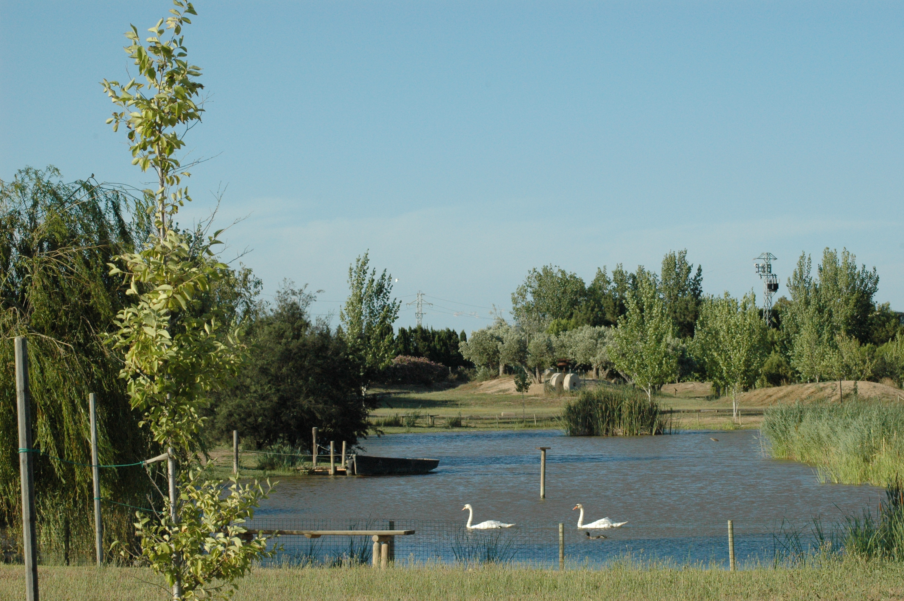 View of Deltarium's lagoon